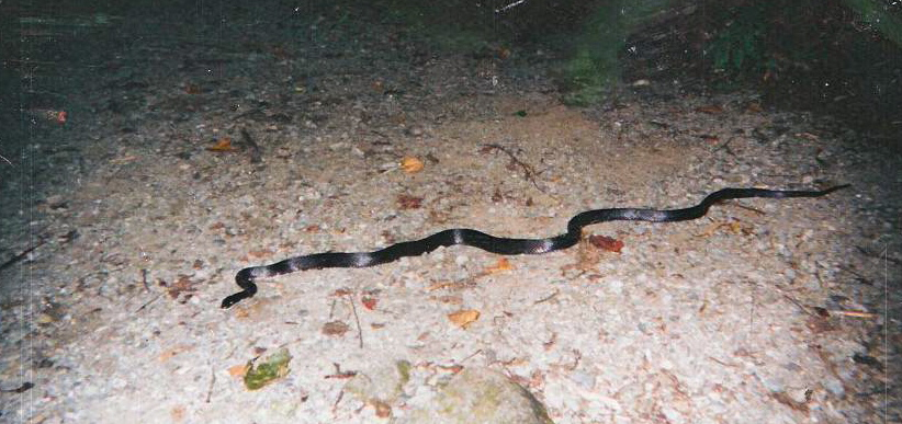 A Black Rat Snake I nearly stepped on in the Great Smoky Mountains